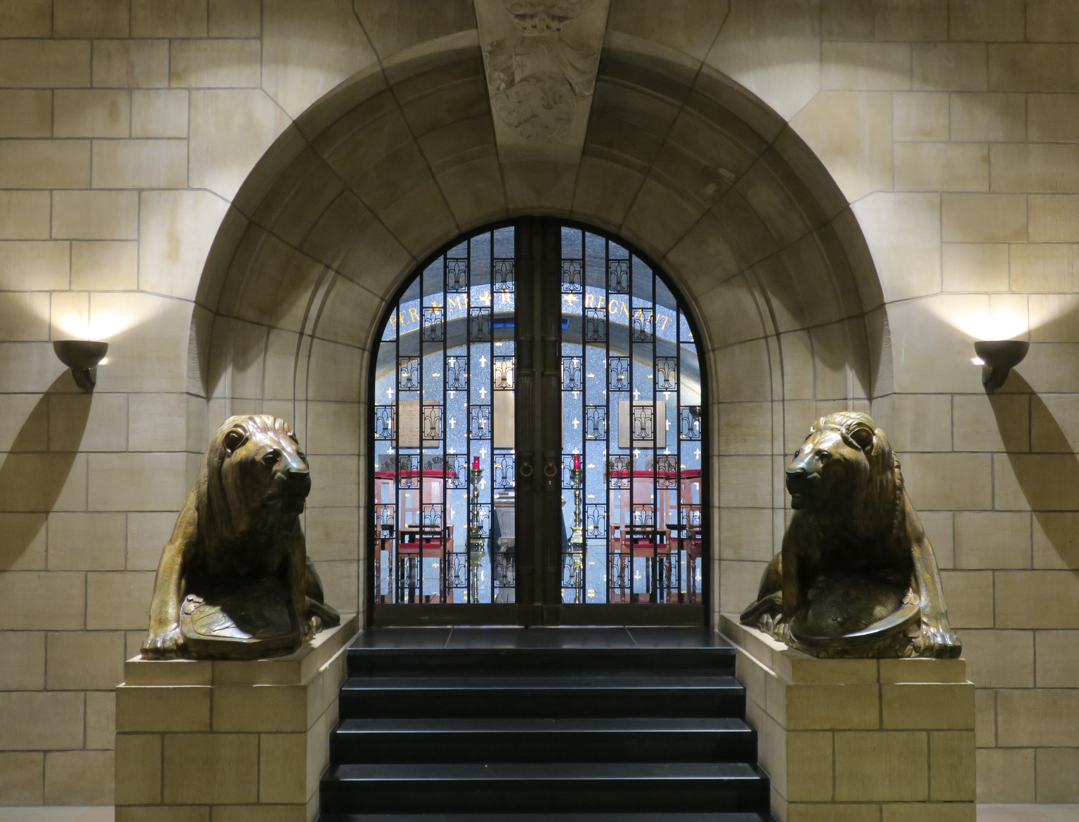 Luxemburg (Stadt) Kathedrale Notre Dame, Krypta, Eingang zur Gruft der großherzoglichen Familie